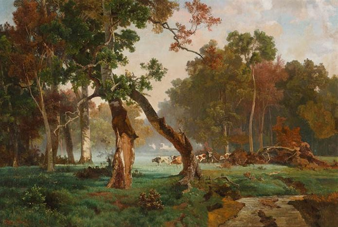 Cows in a Forest Clearing